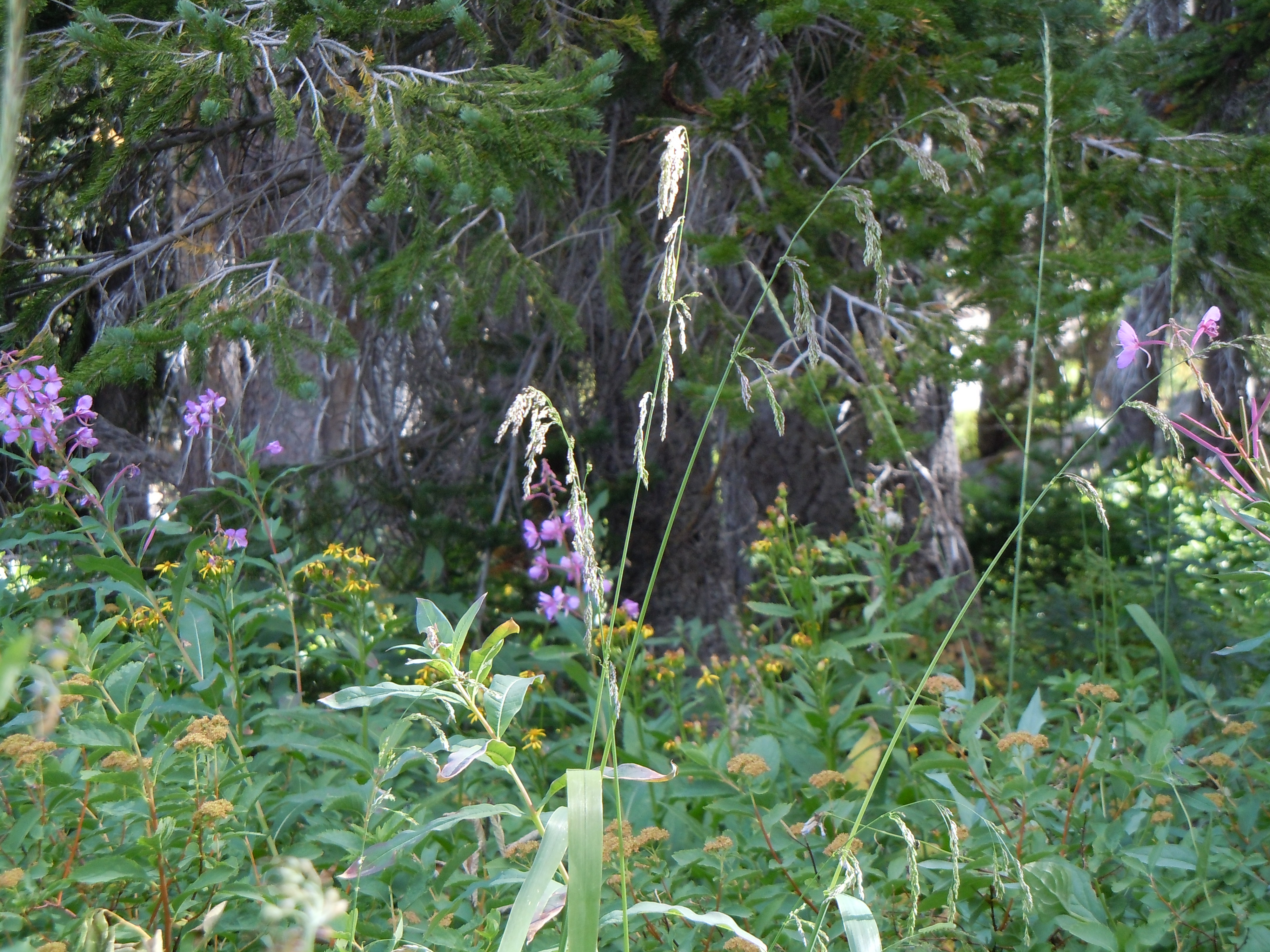 Similar to an Agrostis (bentgrass) but with disarticulation below the glumes, a drooping inflorescence, and broad leaf blades (1 cm or broader).